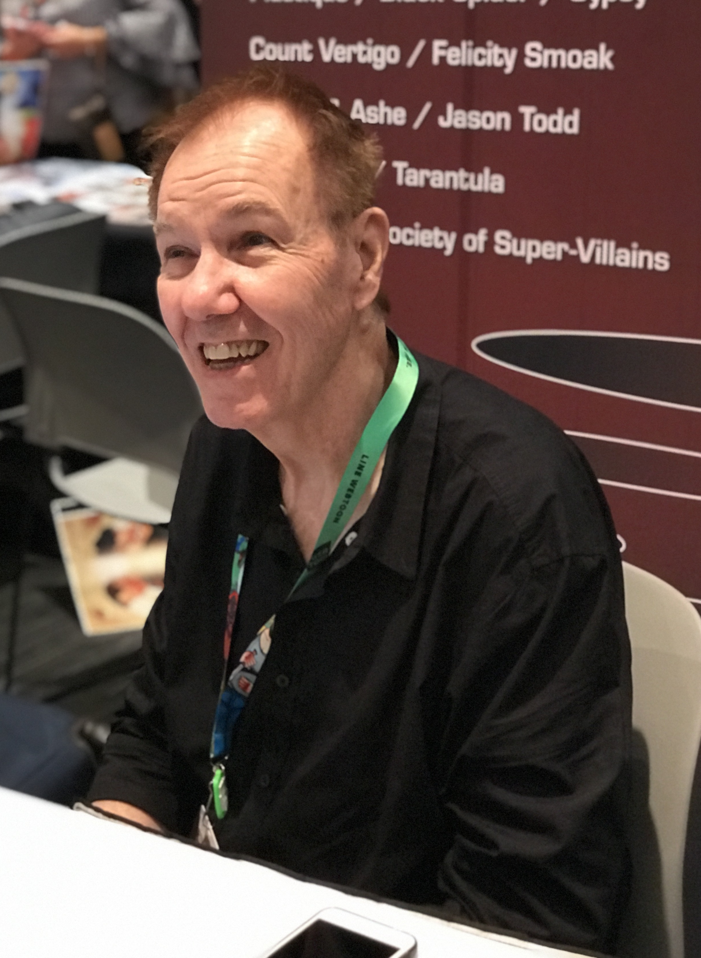 Television and comics writer Gerry Conway in Artists Alley on Sunday, October 8, 2017 at the Jacob K. Javits Convention Center in Manhattan, Day 4 of the 2017 New York Comic Con. This photo was created by Luigi Novi. It is not in the public domain, and use of this file outside of the licensing terms is a copyright violation.